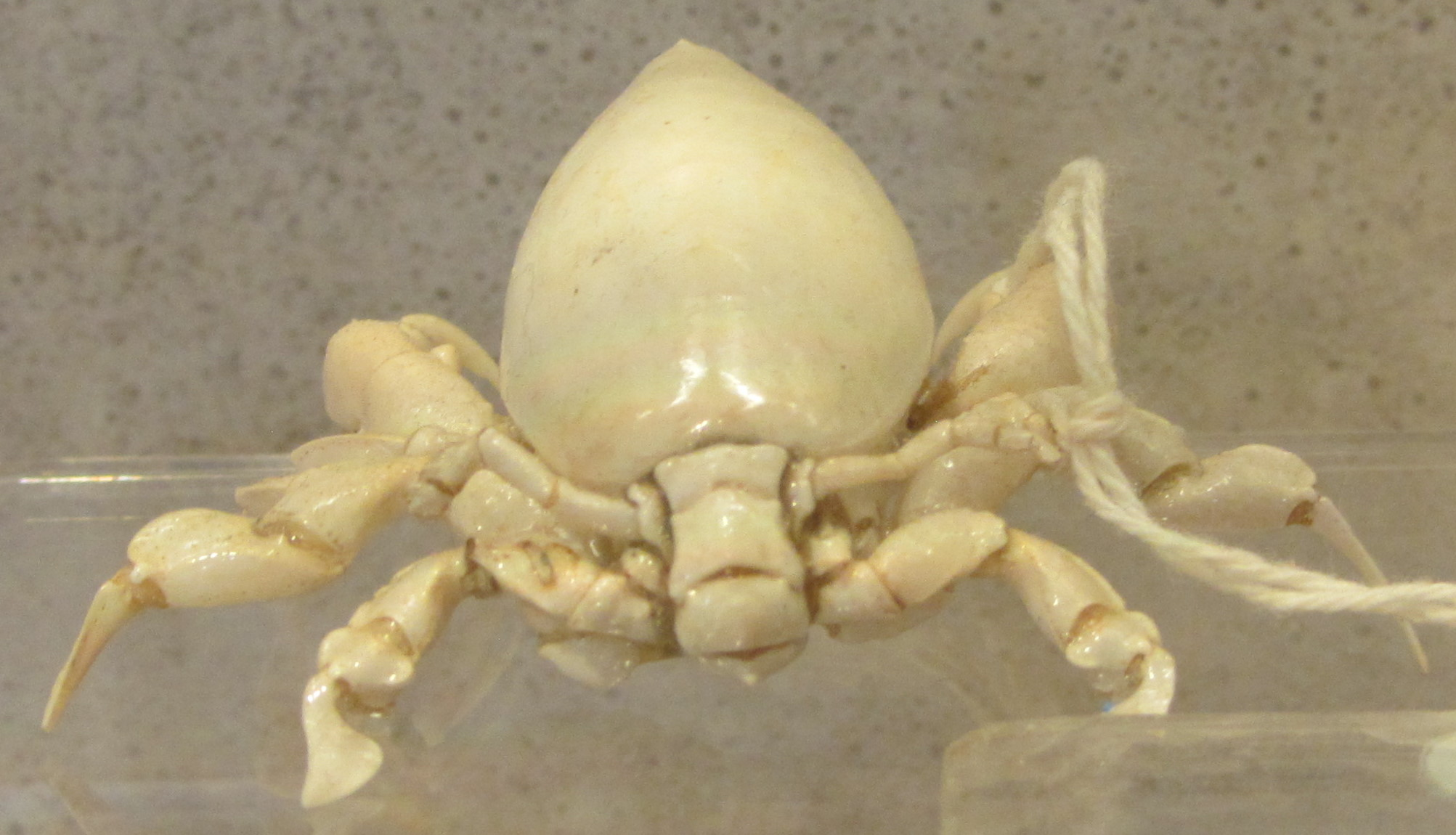 Specimen of Lyreidus stenops